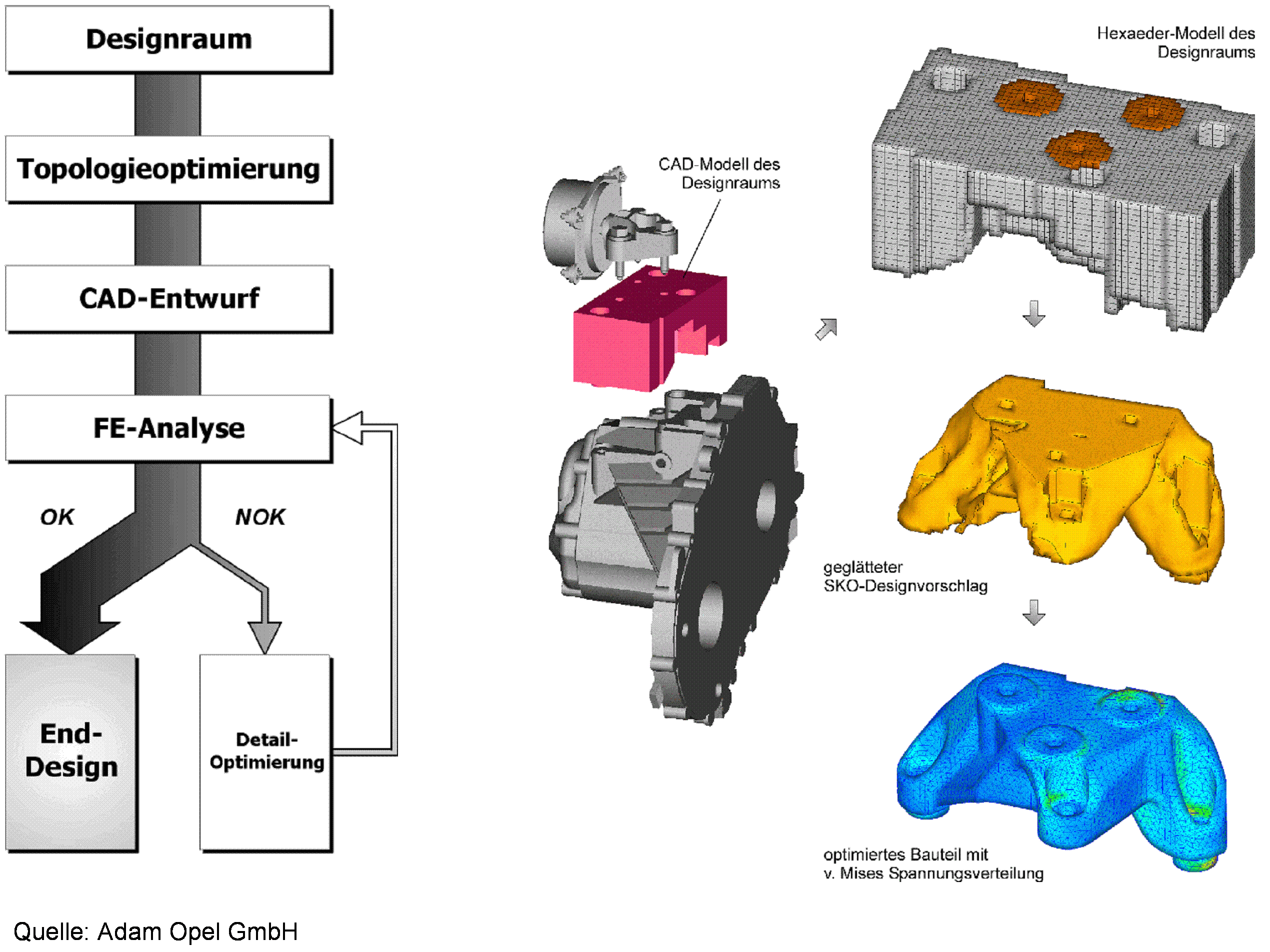 topopt process